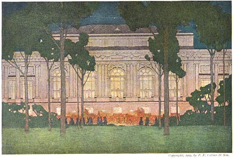 The New Theatre, New York (1909) by Jules Guérin